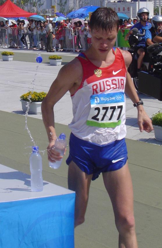 Denis Nizhegorodov on the way to win the bronze medal in the 50 kilometre walk at the 2008 Summer Olympics.